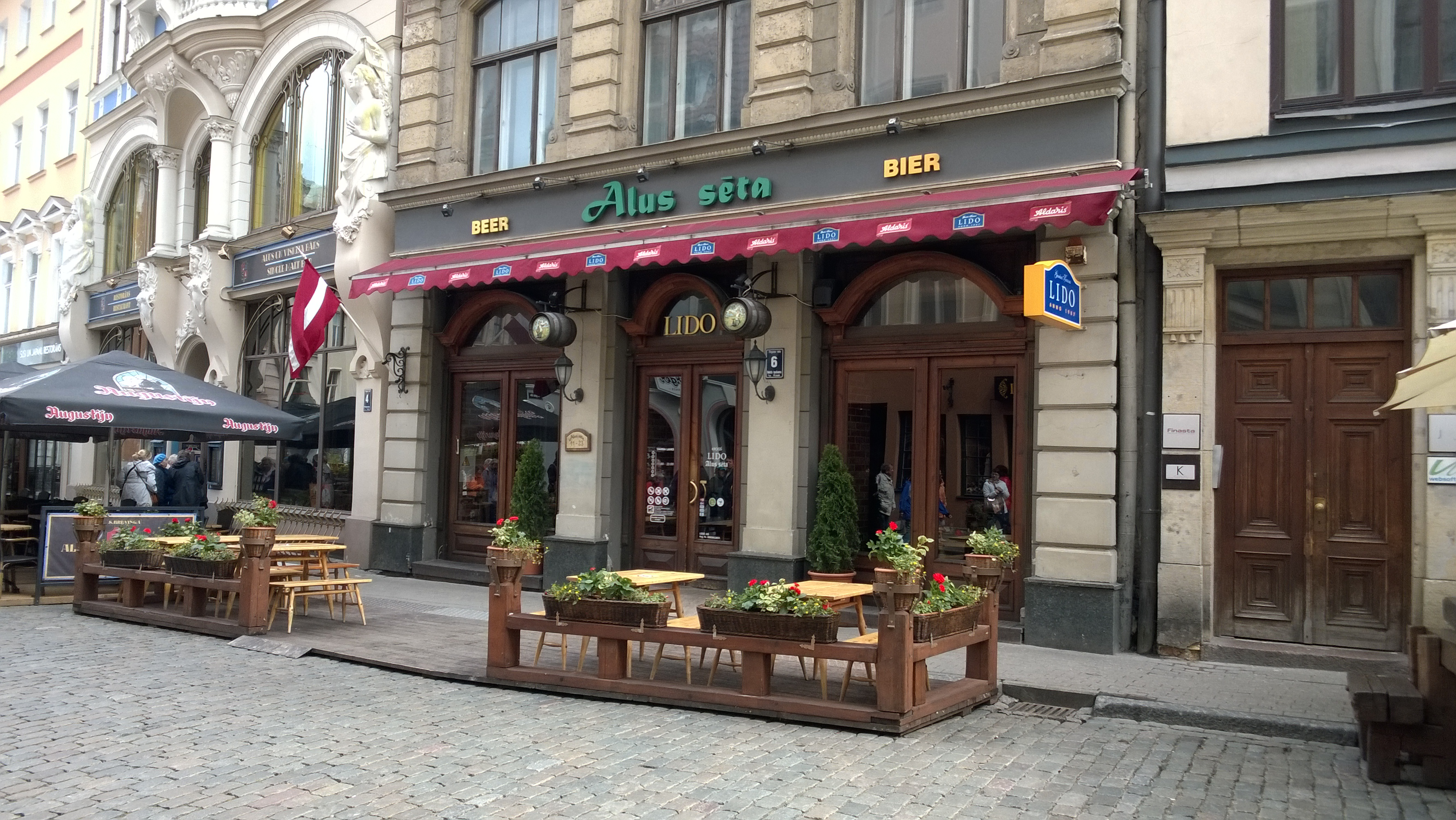 Lido Restaurant in Riga, Latvia, in 2015.